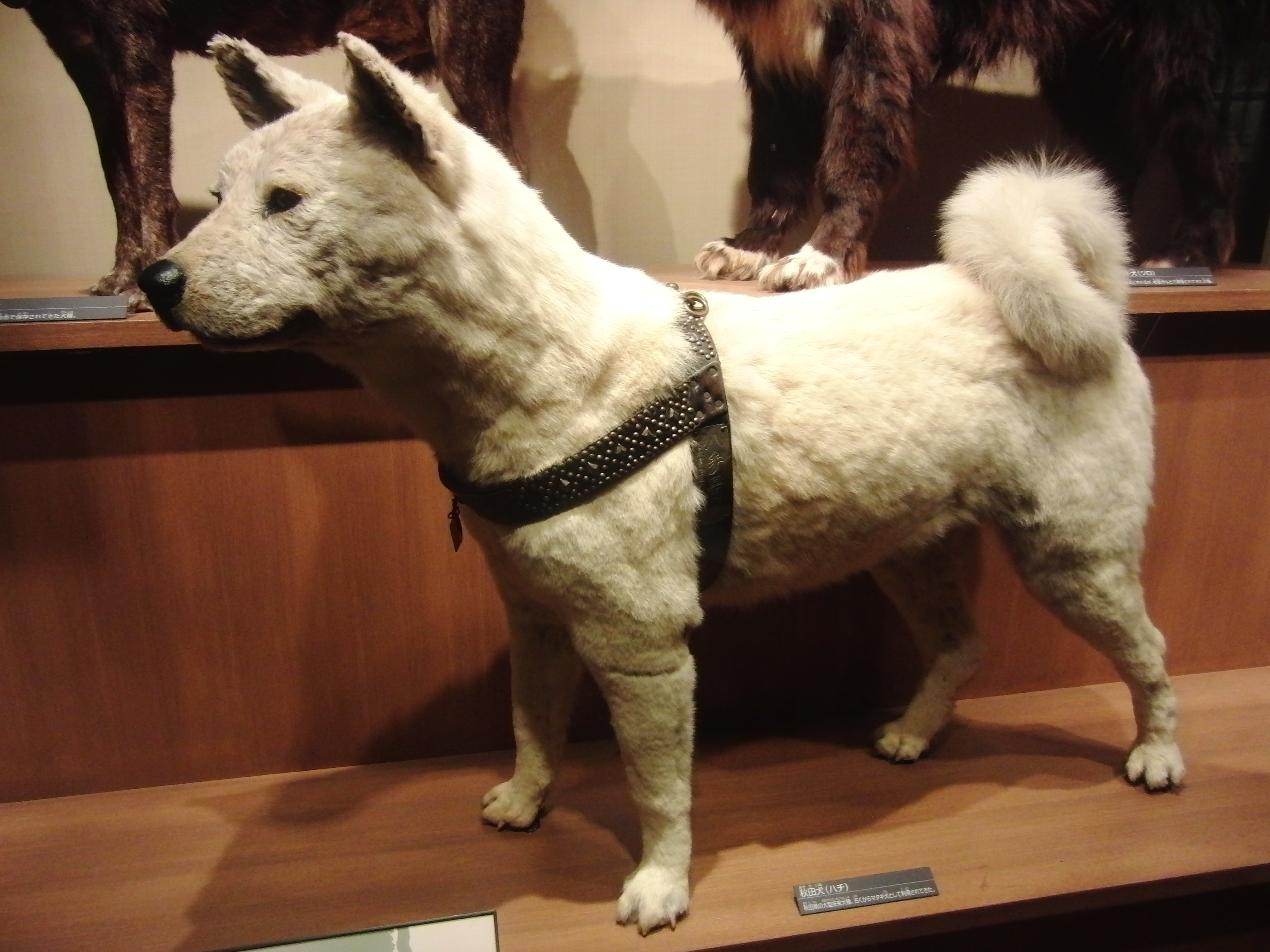 Hachikō exhibited at the National Museum of Nature and Science,Tokyo.